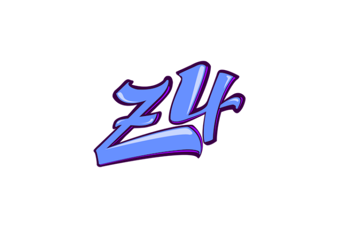 Z4 series